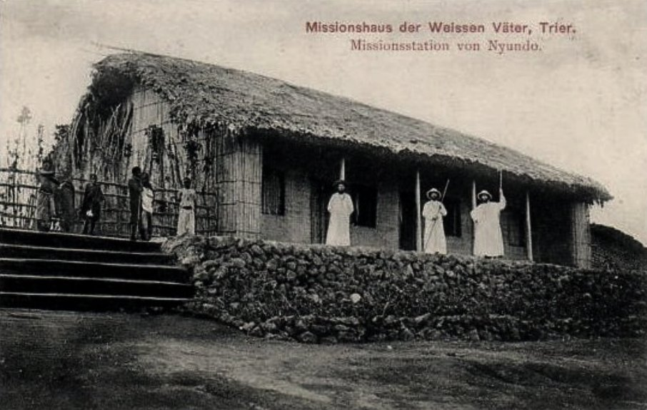 White fathers in front of their mission station at Nyundo, Rwanda, to the north-east of Kisenyi, in the valley of Bugoyi